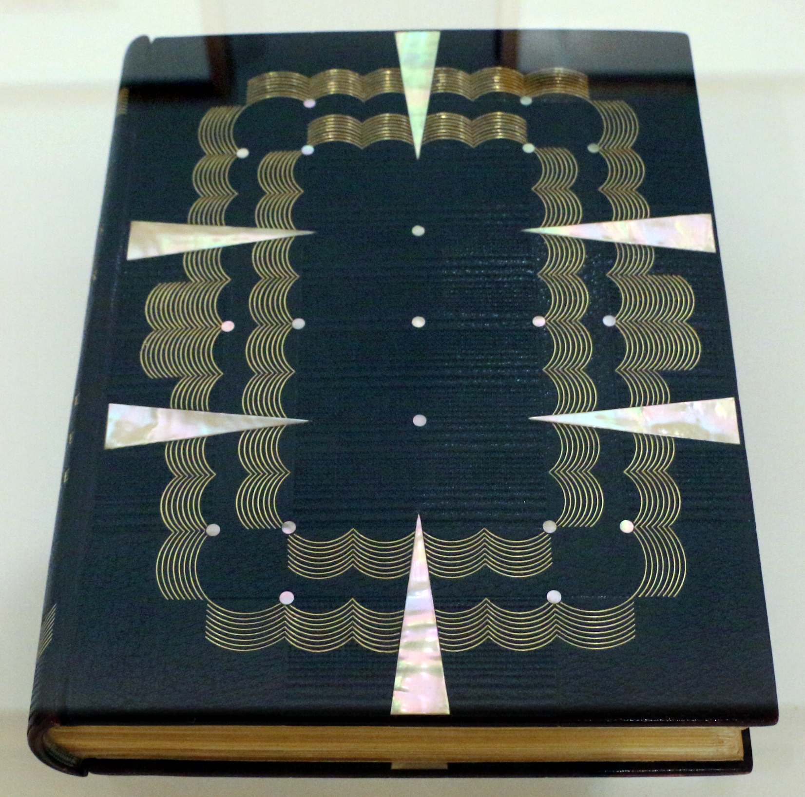 Calouste Gulbenkian Museum